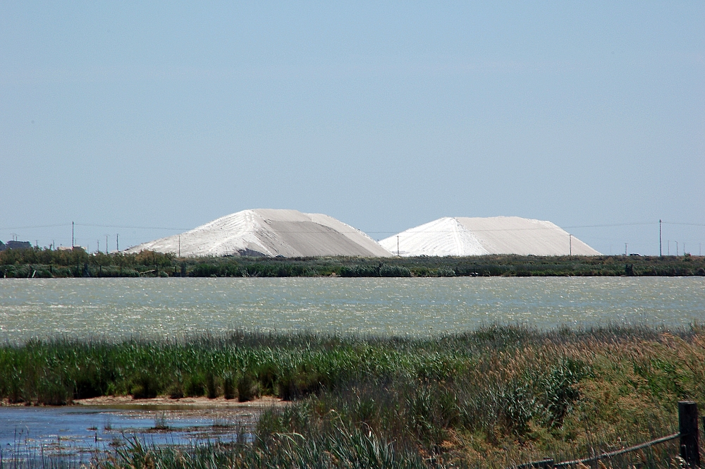 Salt evaporation pond, Aigues-Mortes, Camargue, France